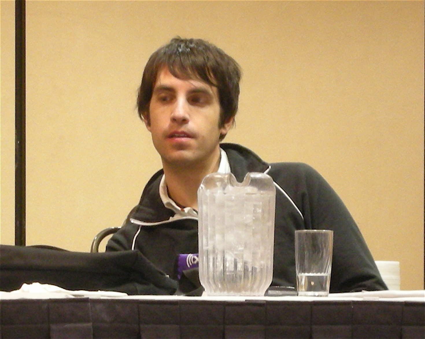 Engadget co-founder Peter Rojas at the 2007 Consumer Electronics Show